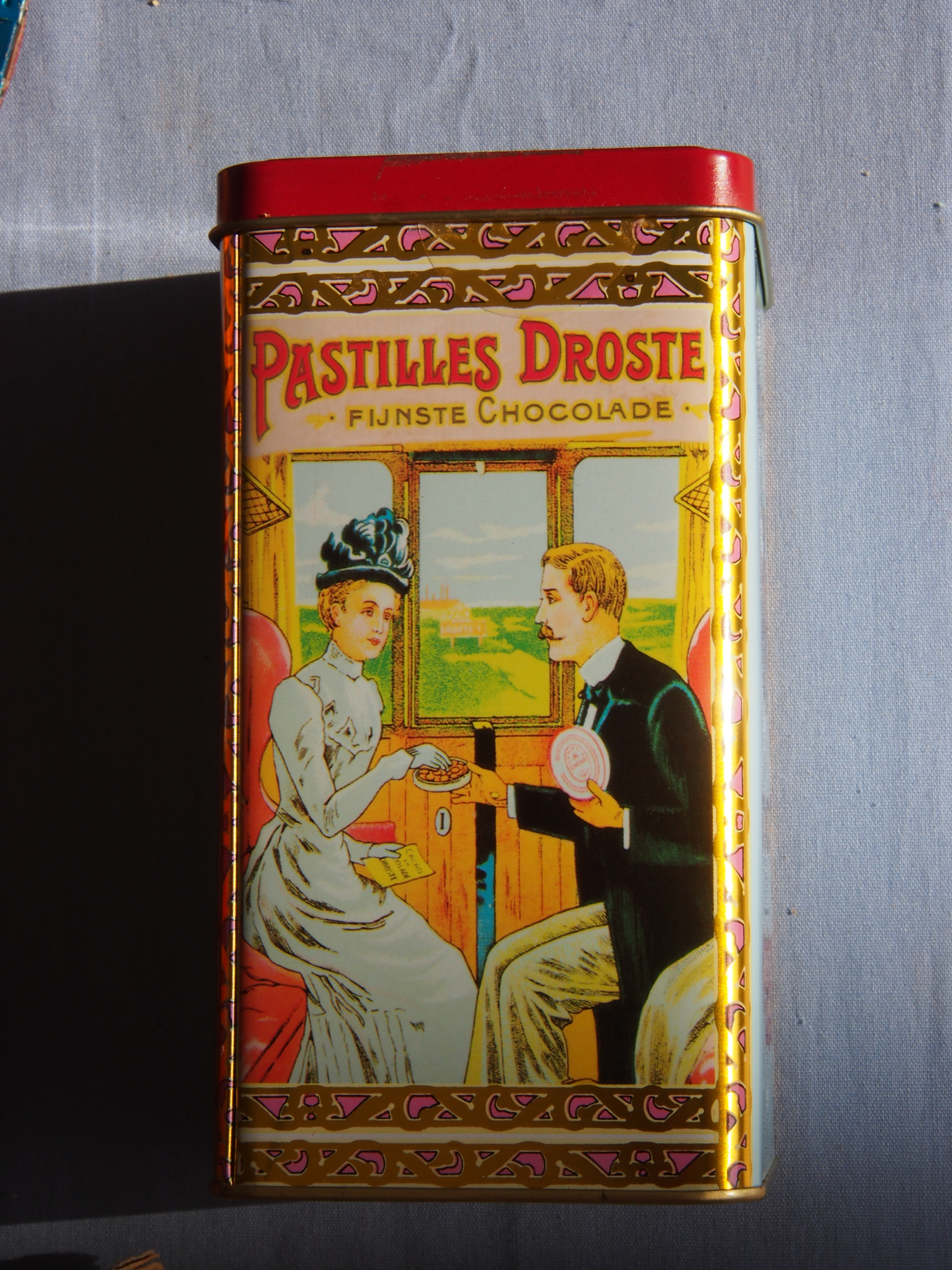 Droste's Chocolate Pastilles